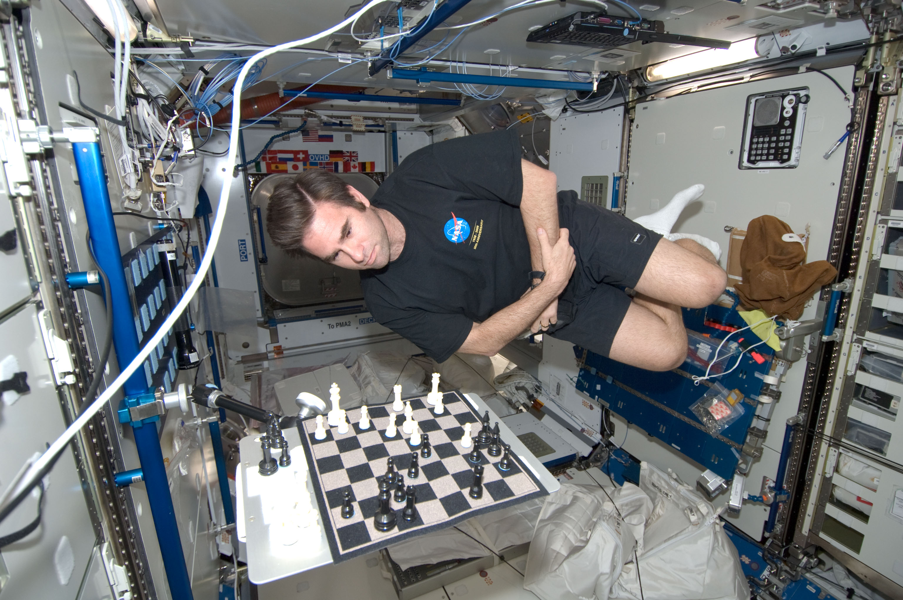 NASA astronaut Greg Chamitoff, Expedition 17 flight engineer, ponders his next move as he plays a game of chess in the Harmony node of the International Space Station.